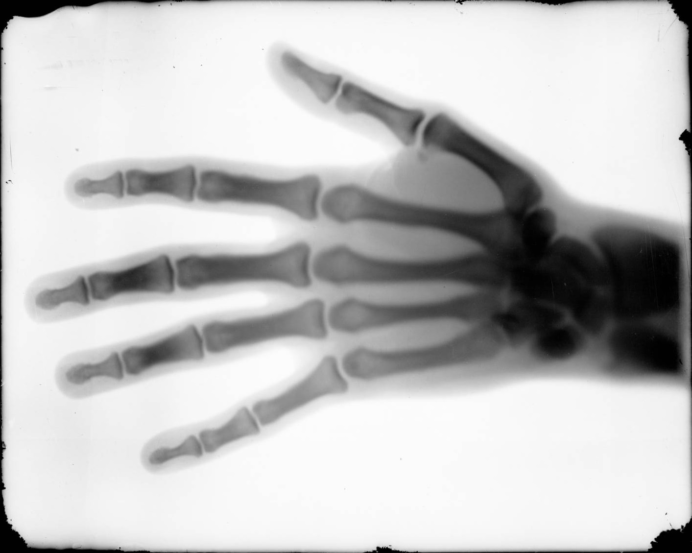 An X-ray of the hand of Dr. C. E. Tennant taken by Harry Buckwalter in the first week of March 1896.